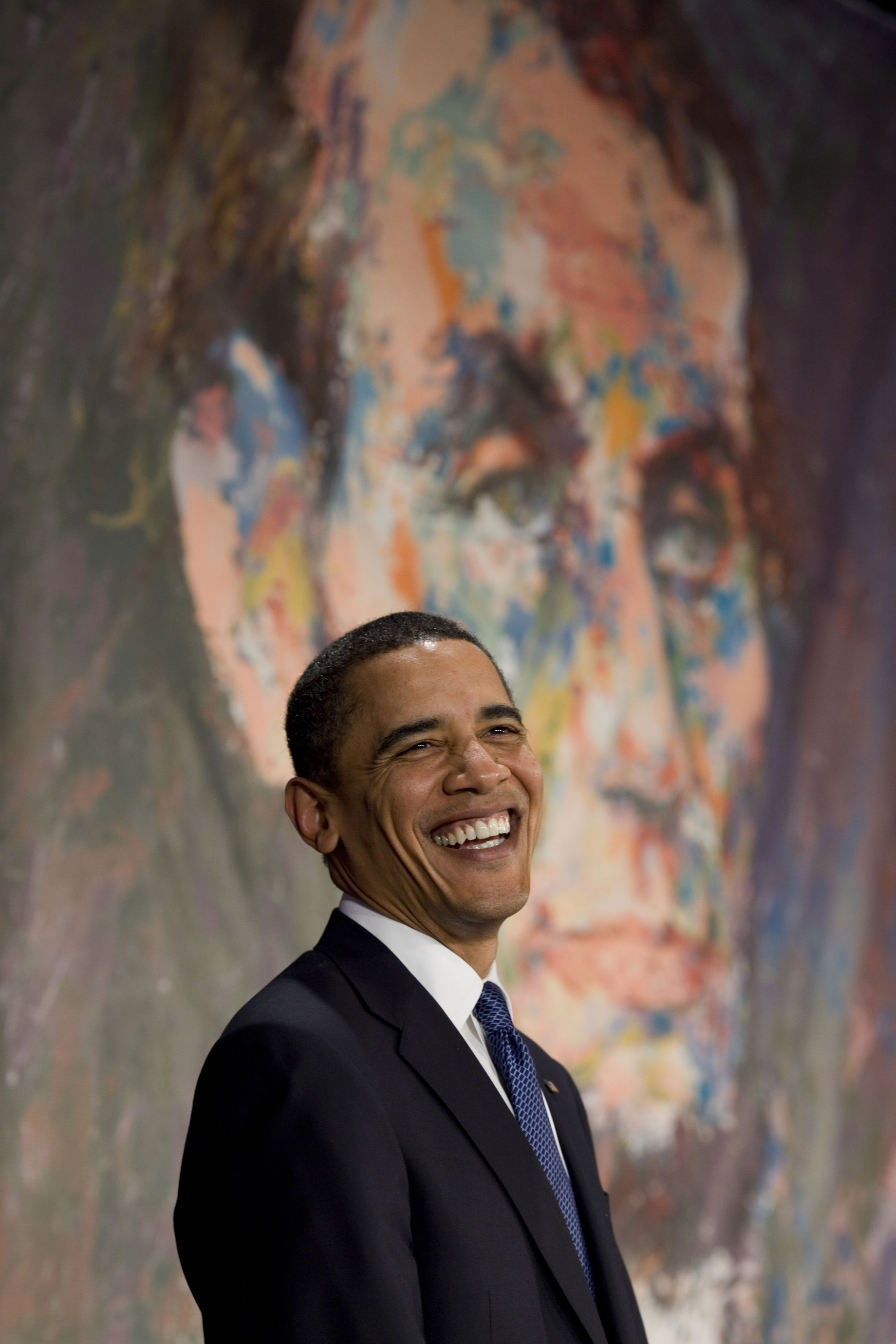 President Barack Obama in front of a portrait of President Abraham Lincoln.